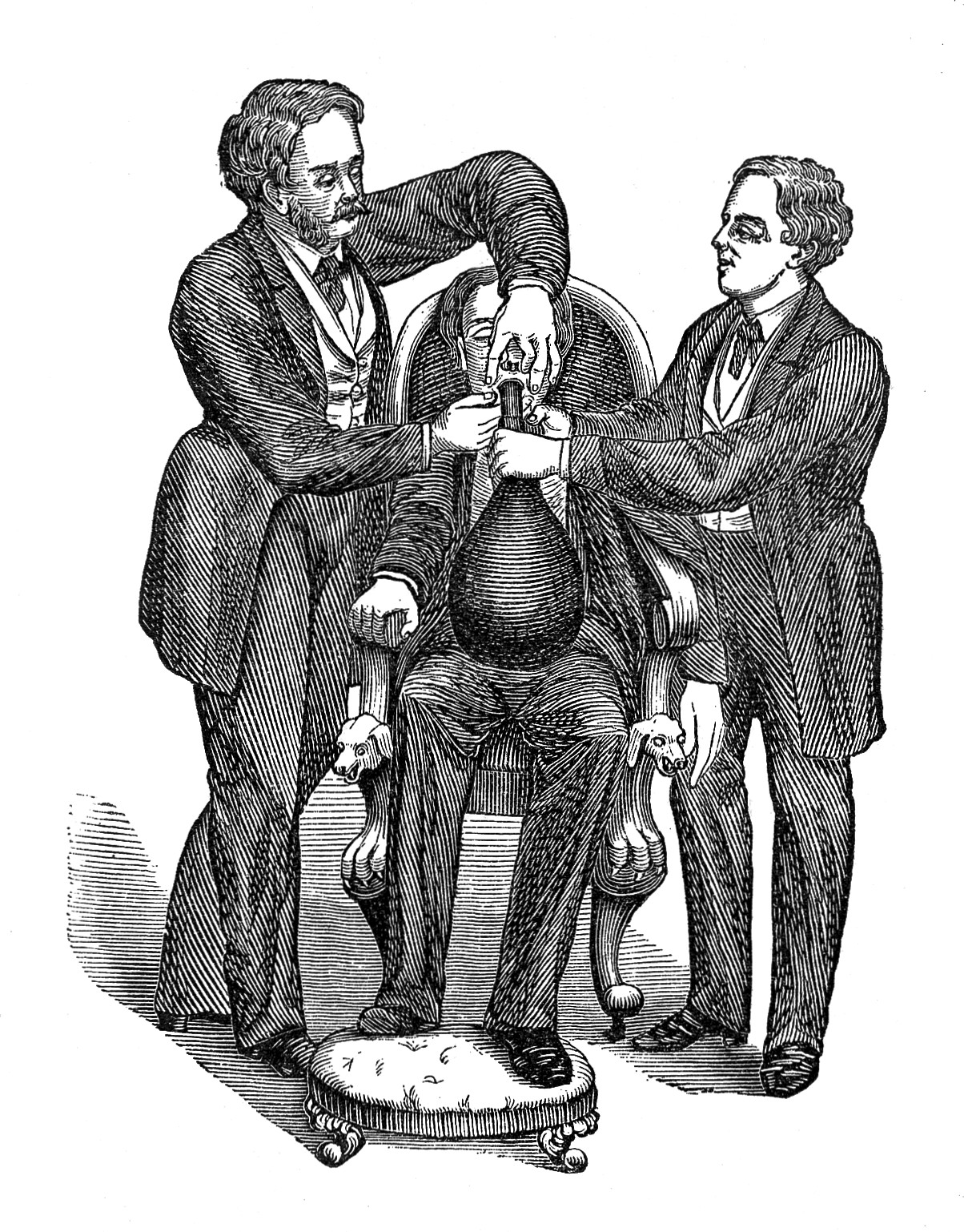 Administration of nitrous oxide Wellcome Images Keywords: F.R. Thomas